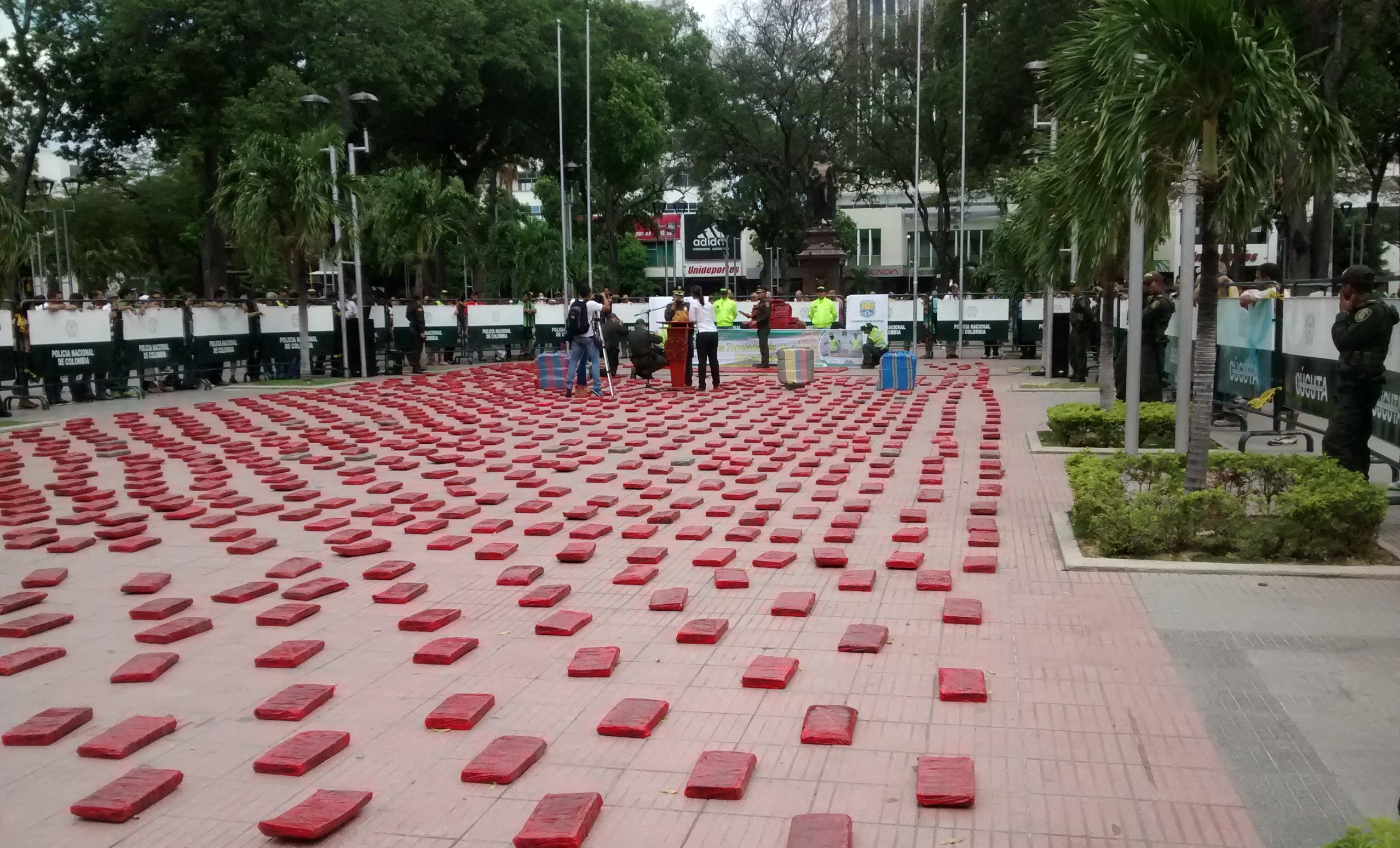 A drug seizure by colombian national police.